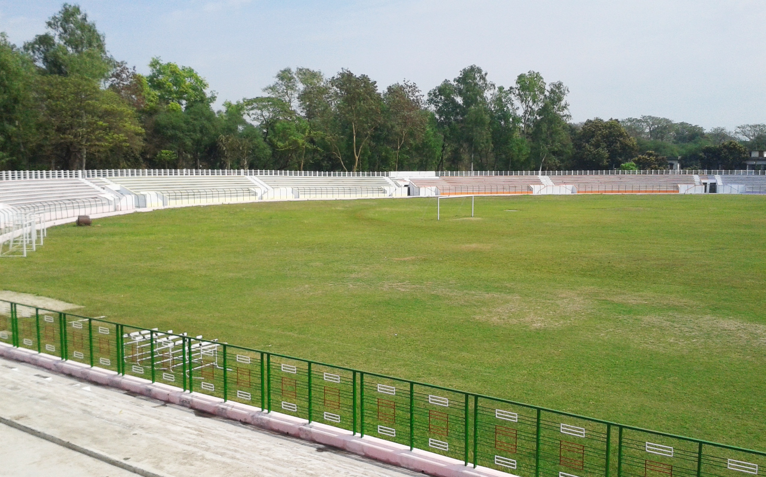 Stadium, University of Rajshshi